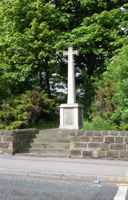 Stourton & Thwaitegate War Memorial - Wakefield Road